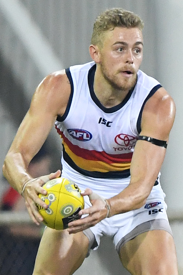 Hugh Greenwood of Adelaide during the 2019 AFL round 11 match between Melbourne and Adelaide at TIO Stadium on Saturday, 1 June 2019 in Darwin, Northern Territory.